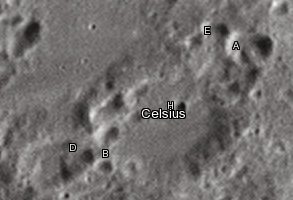 Celsius lunar crater as seen from Earth with satellite craters labeled